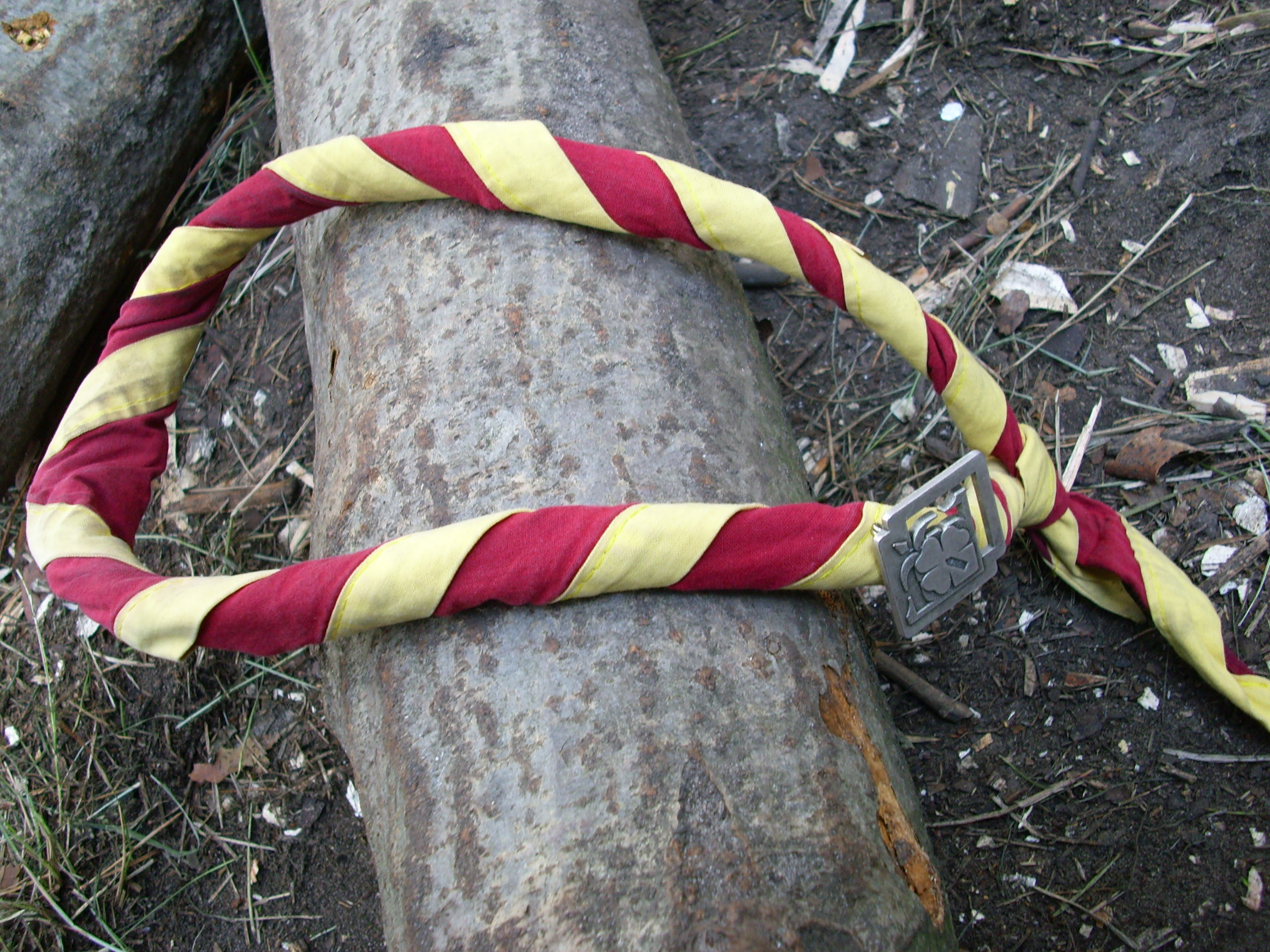 Foulard scout, EEDF